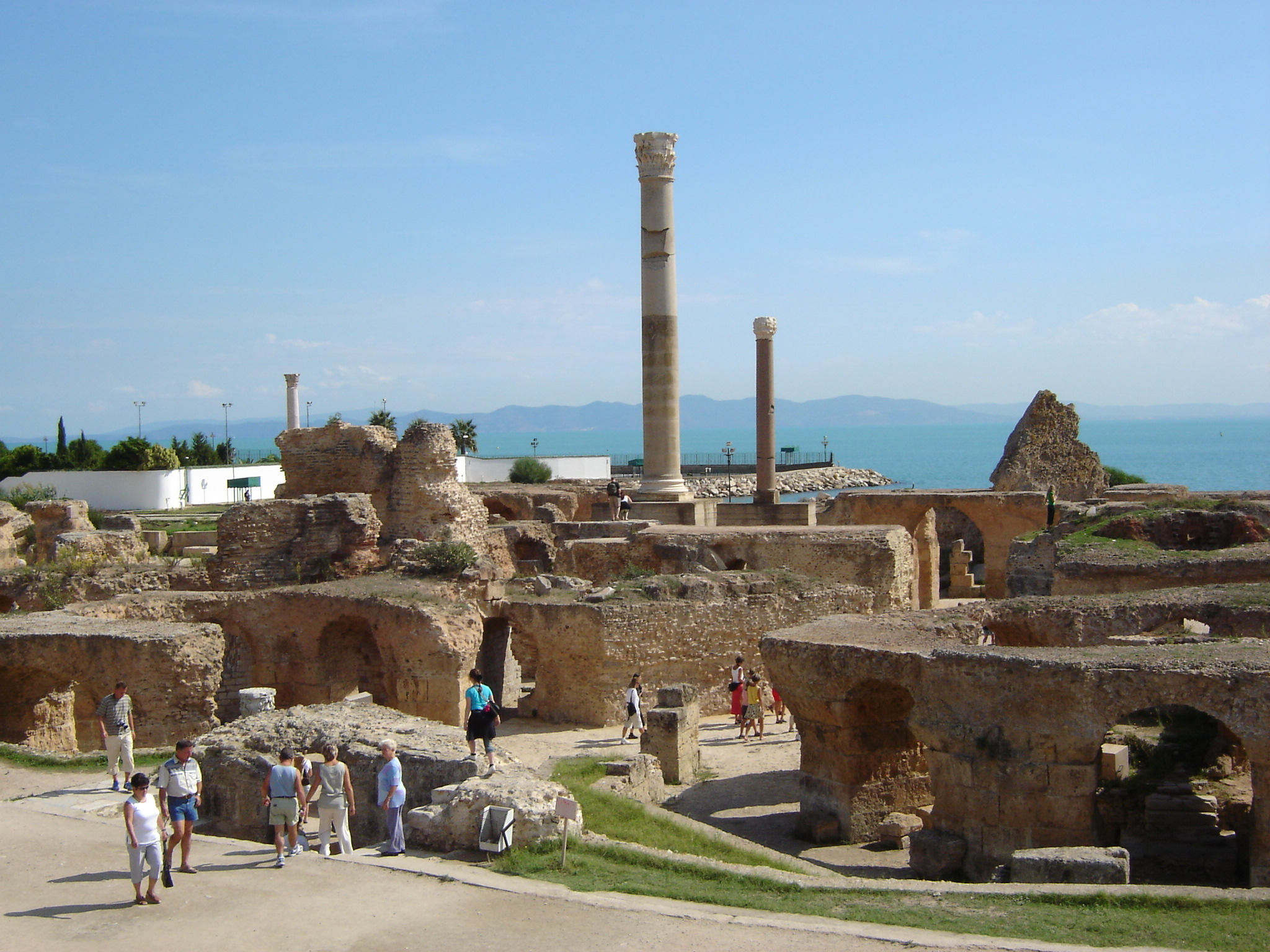 Thermes of Antoninus Pius, Carthage Source: Self-made, October 2004 Author: BishkekRocks